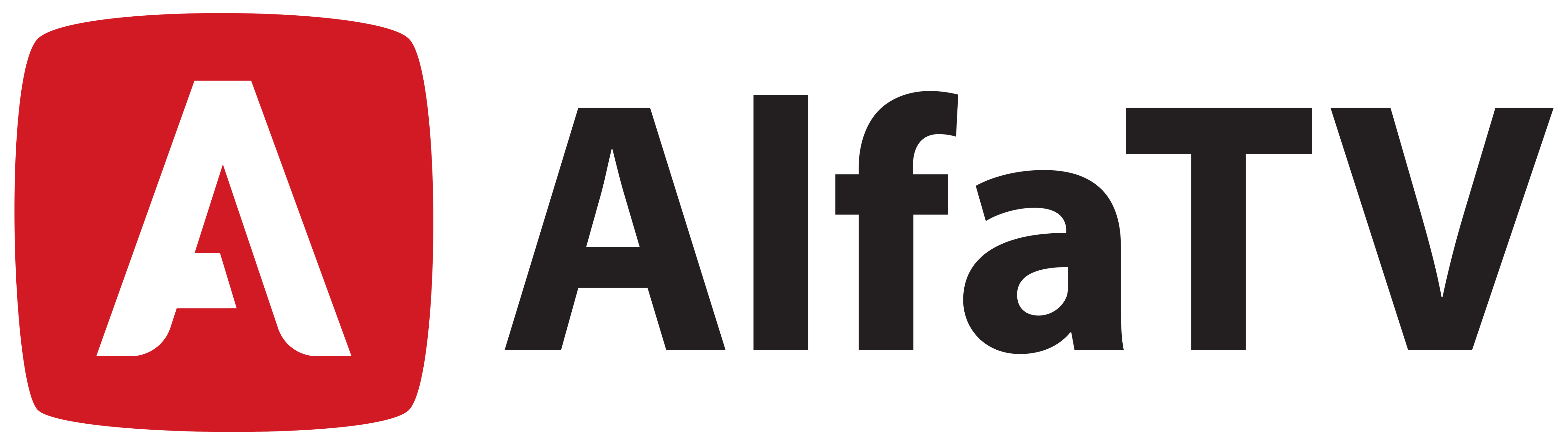 Alternative version to the AlfaTV logo.